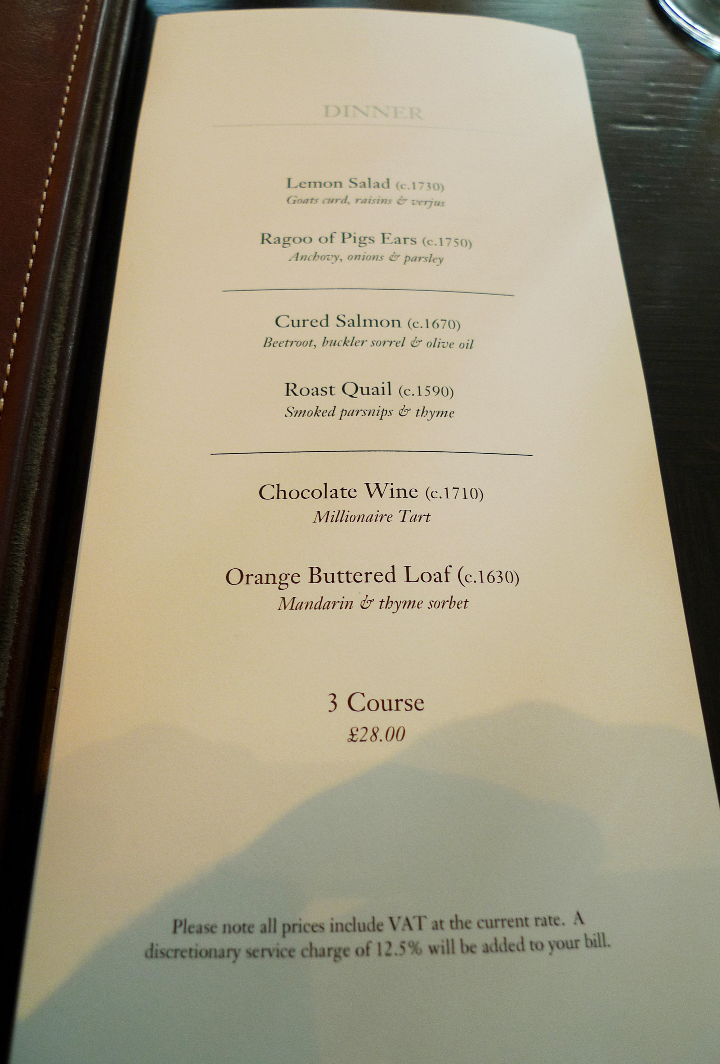 The set lunch menu. At Dinner by Heston Blumenthal, Knightsbridge.